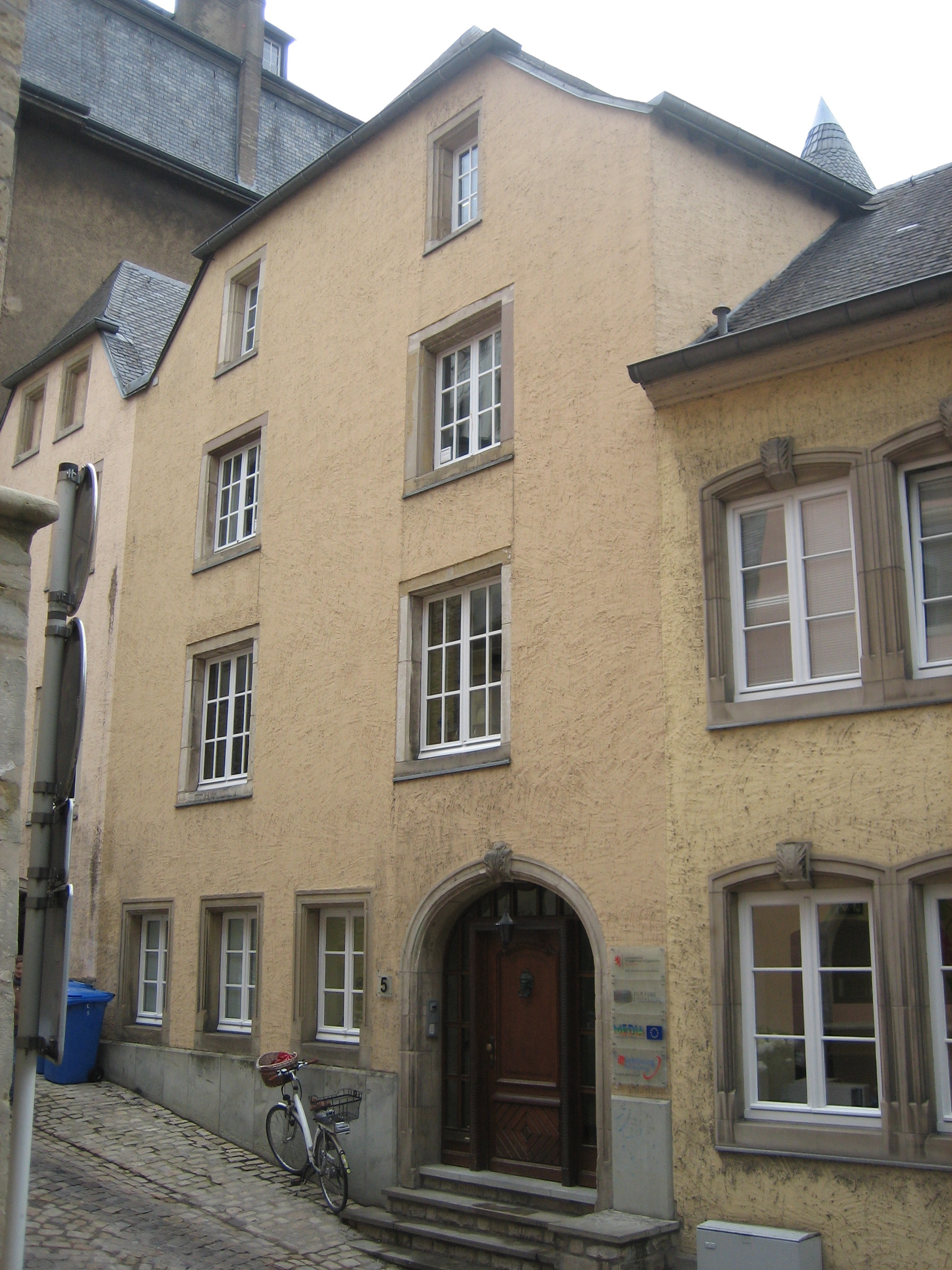 Maison de Cassal, rue Large 5 Luxembourg City. Classified cultural heritage monument ("monument national") since 1 August 1940.